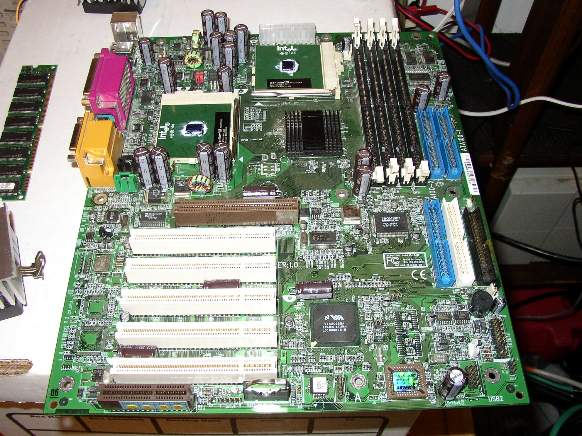 A freshly recapped MSI 694D Pro motherboard with new Nichicon capacitors. I took this photo myself and release it under the GFDL.